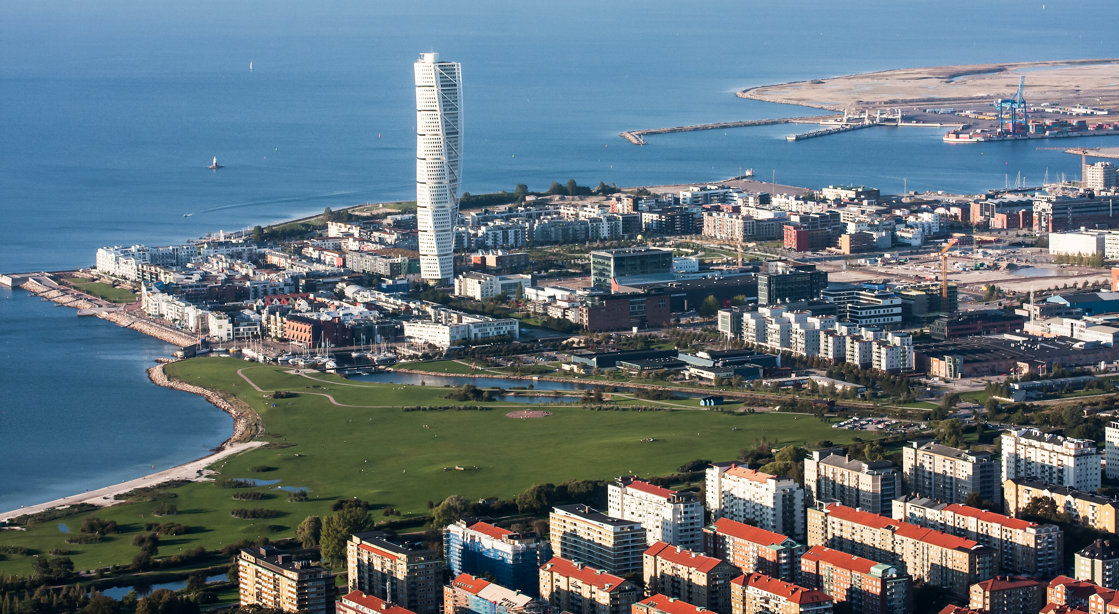 Malmö Western Harbour with skyscraper Turning Torso.